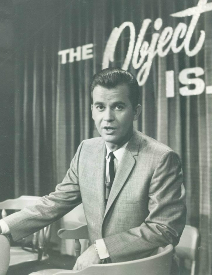 Publicity photo of Dick Clark from the television show The Object Is.